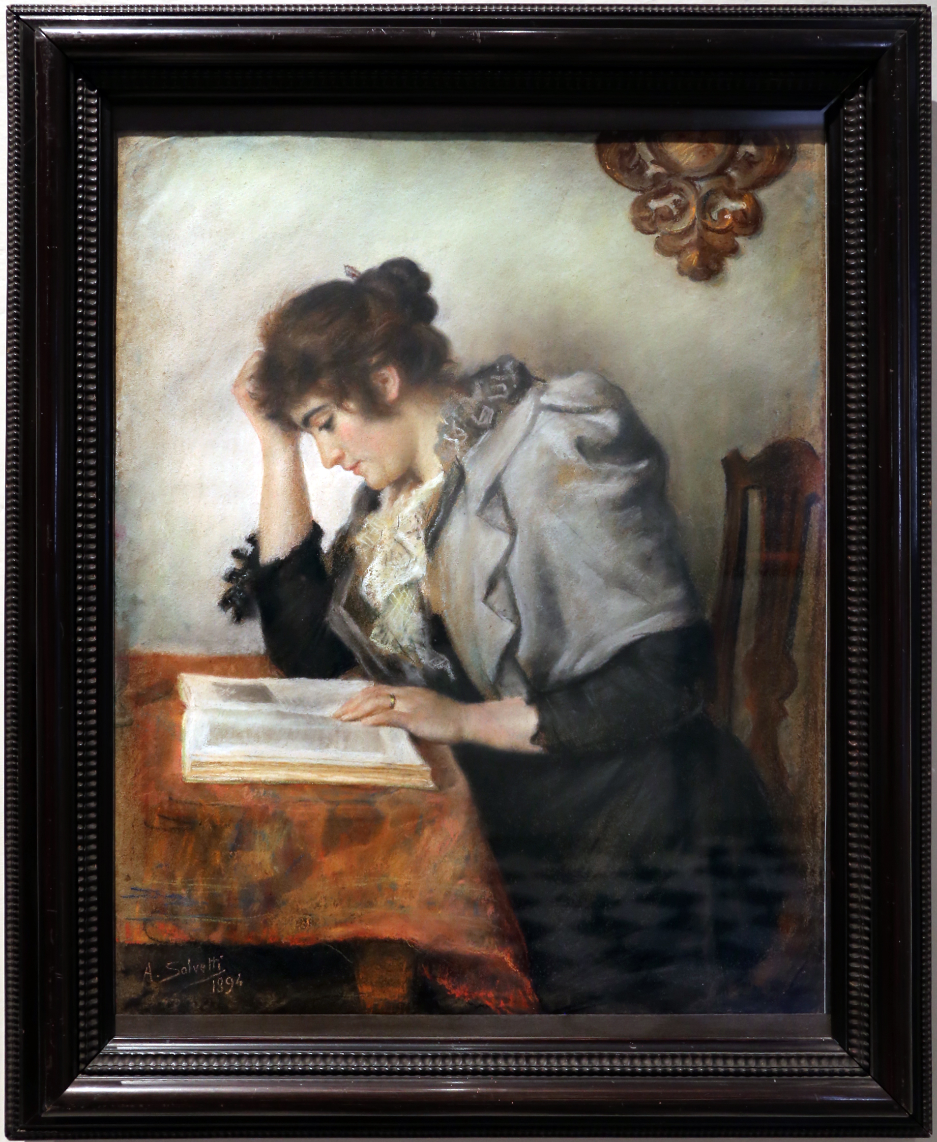 Museo San Pietro (Colle di Val d'Elsa)